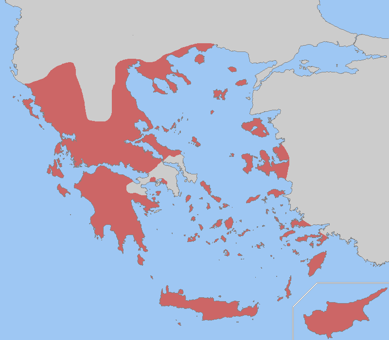 Predominantly Greek Speakers' Areas, ca. 1900